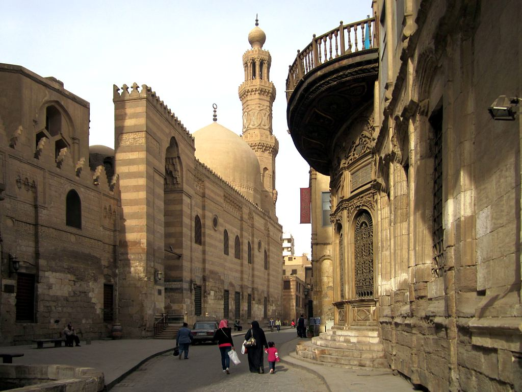 The striped Madrassa and Mausoleum of Barquq in the Bein al-Qasreen district of old Cairo, Egypt, dates from 1384.